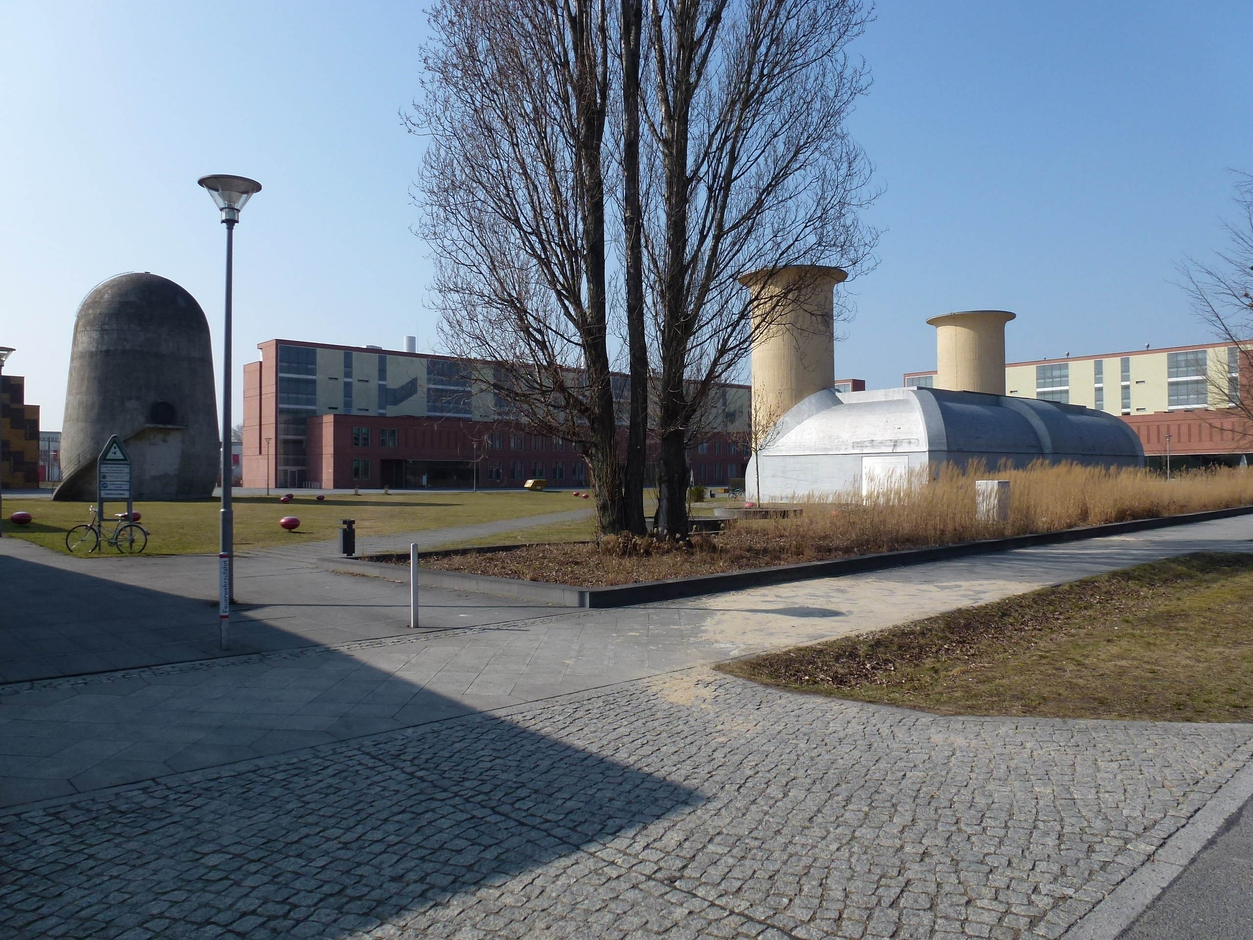 Berlin-Adlershof Aerodynamischer Park (Newtonstraße)